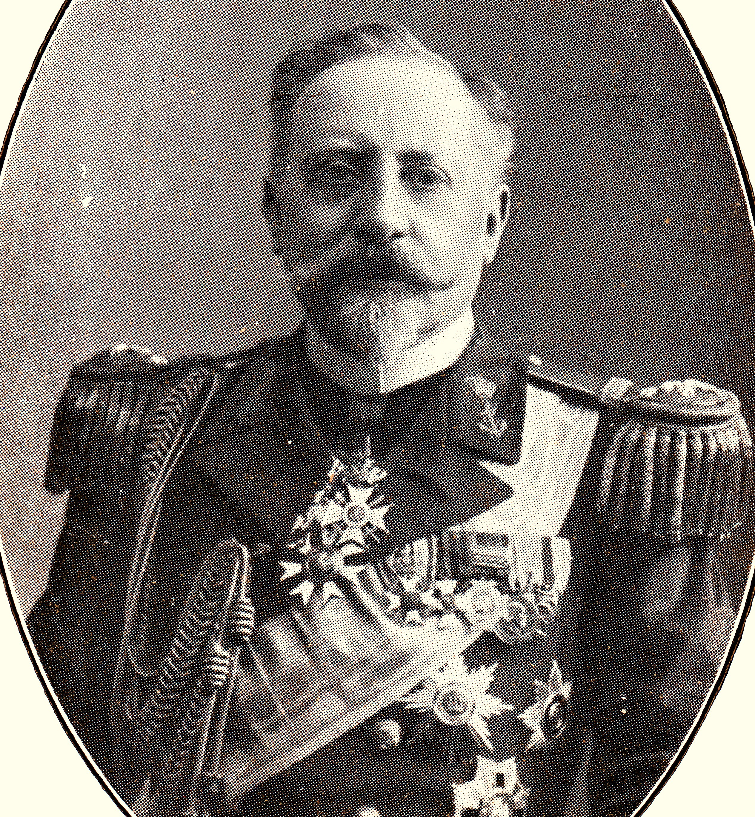 Vice admiraal Sweerts de Landas Wyborg